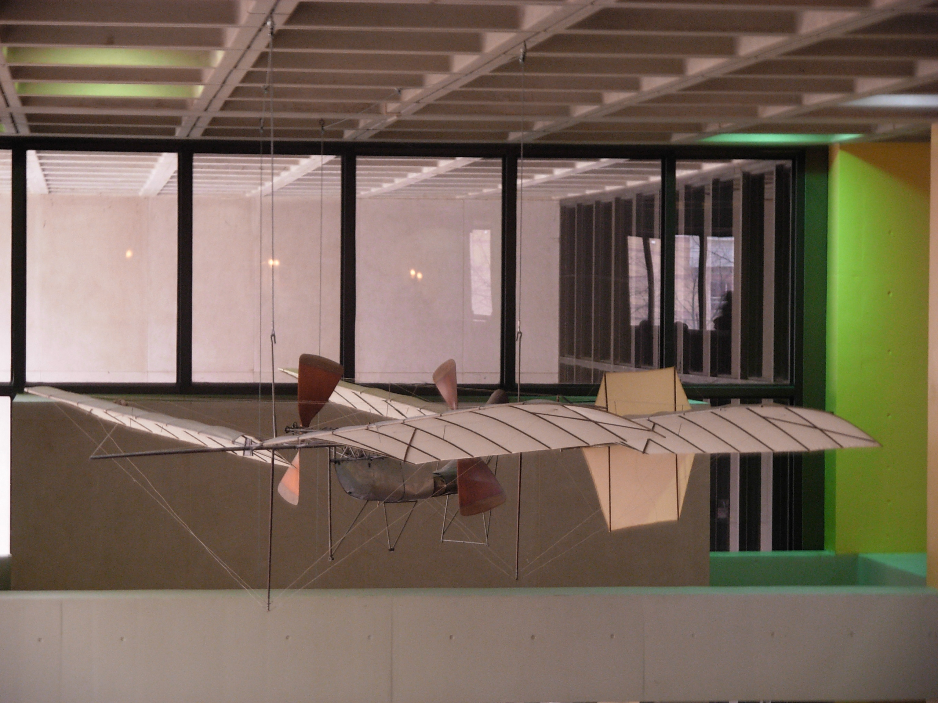 Langley Aerodrome at WWPH, University of Pittburgh.